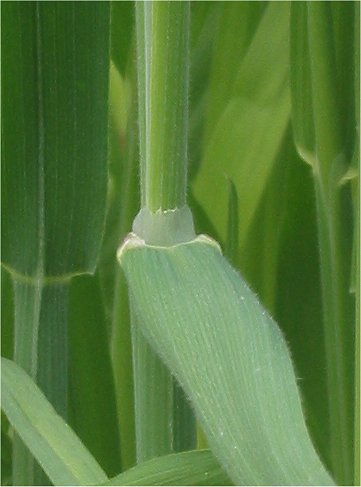 Holcus lanatus (witbol) ligula